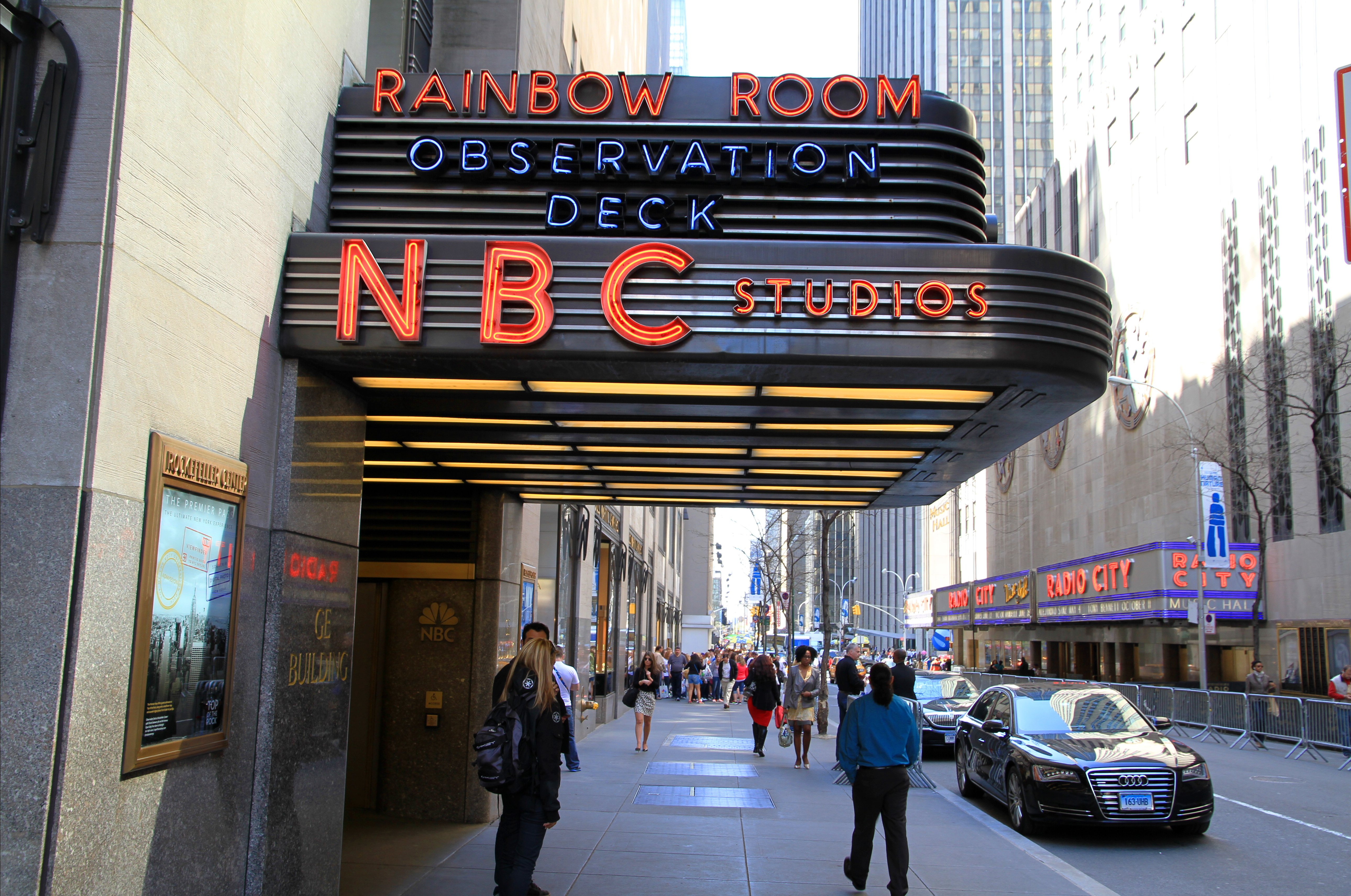 NBC Studios